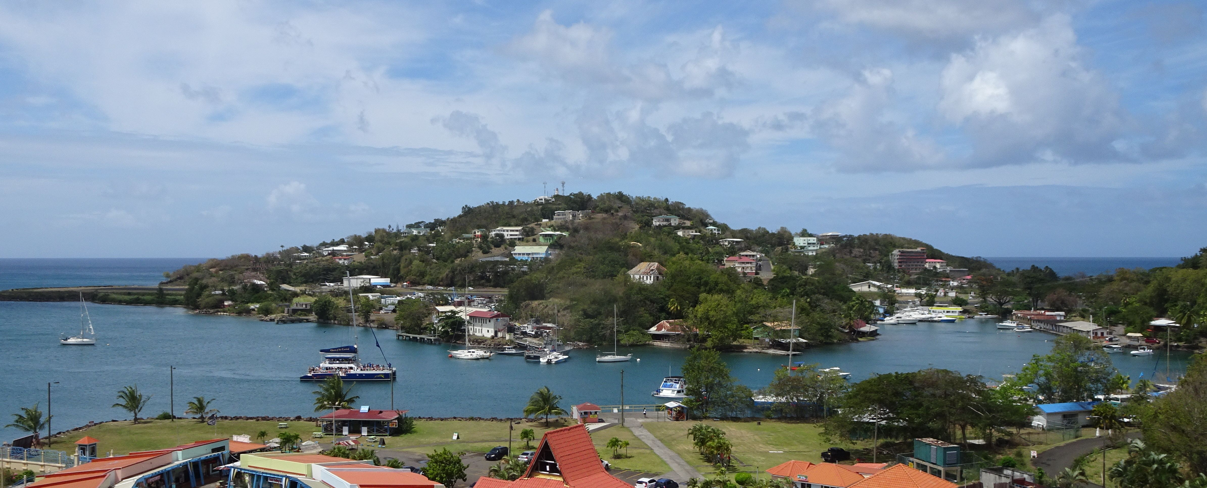 Vigie 2019